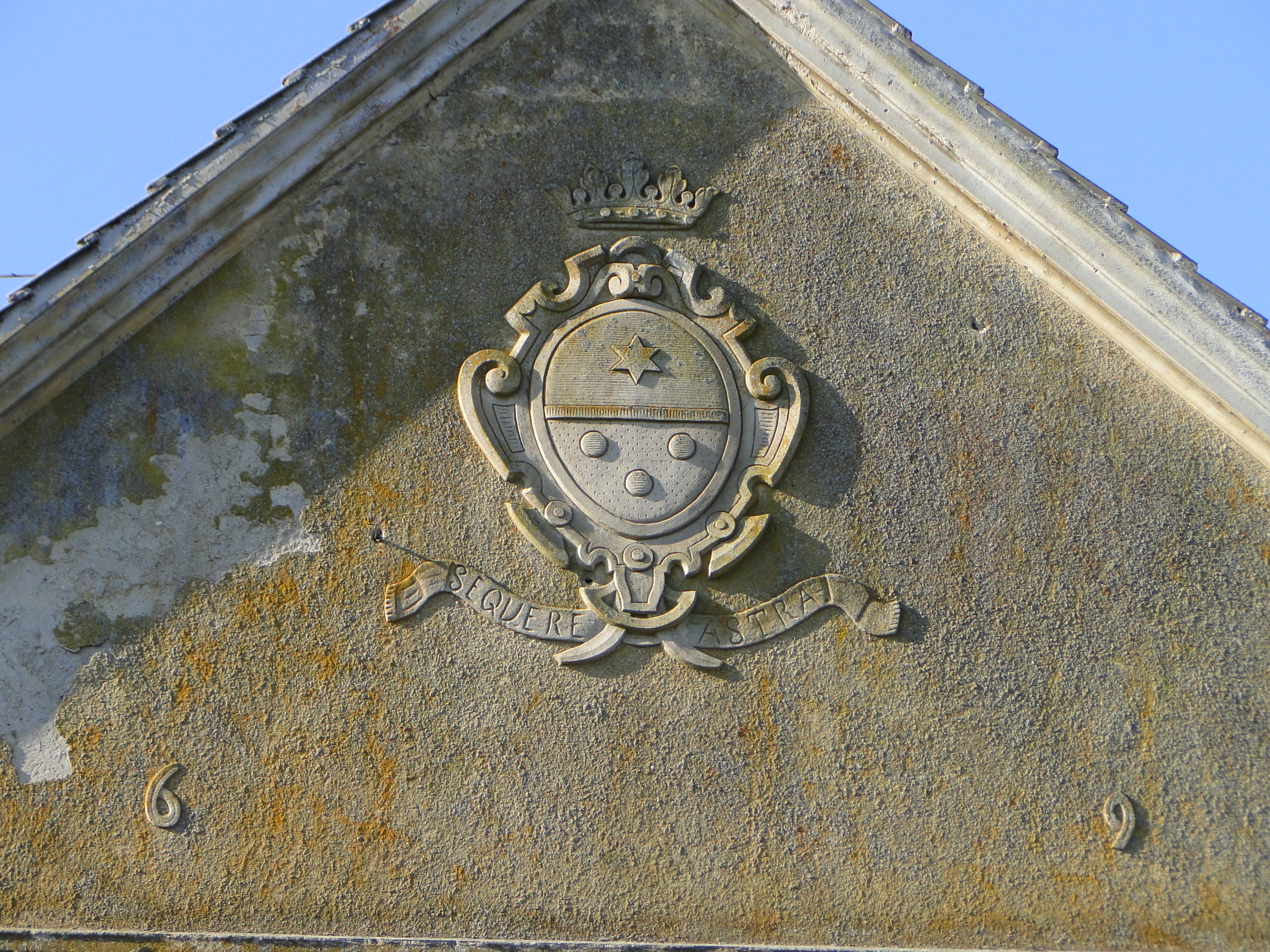 Manor in Chemnitz, district Mecklenburg-Strelitz, Mecklenburg-Vorpommern, Germany; coat of arms of the von Klinggräff family with Latin motto SEQUERE ASTRA (Follow the stars)